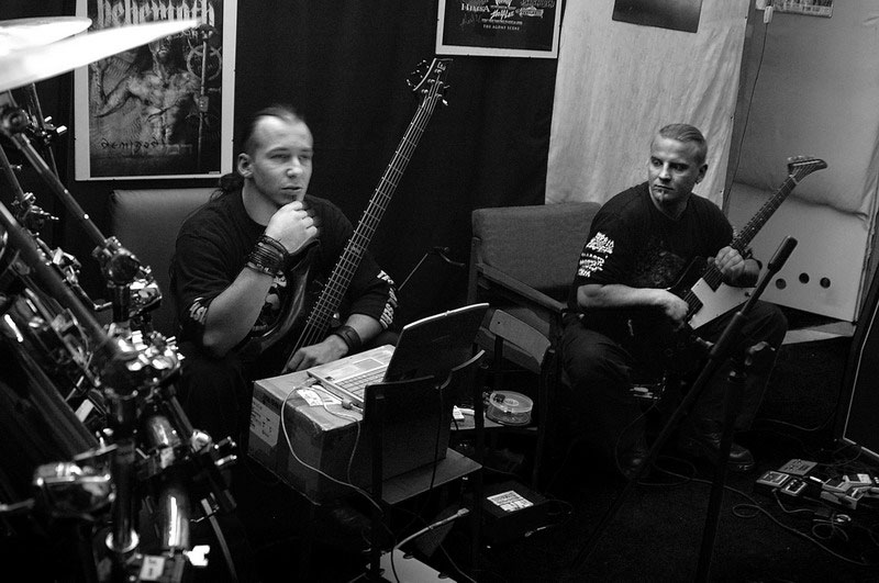 Behemoth band rehearsal the preproduction of album The Apostasy (from left Orion and Seth)